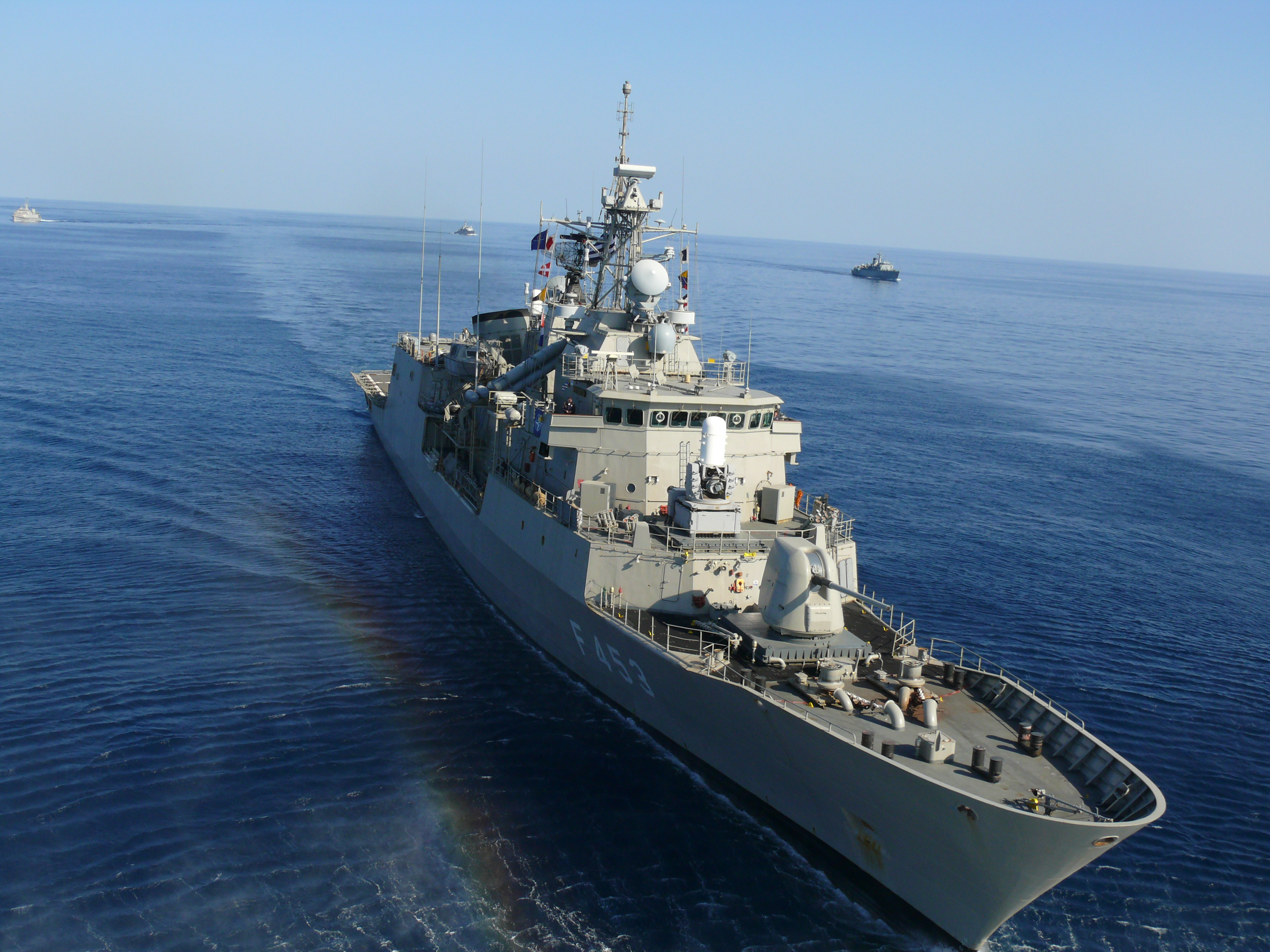 Standing NATO Mine Countermeasures Group 2 Flagship Greek Frigate HS Spetsai in the Red Sea while transiting to the Persian Gulf on Operation INAS BAHR (Friendly Seas), (Photo by 2nd Lt. Gianpiero Sanna ITA Navy (SNMCMCG2 PAO) NATO Maritime Command Naples Date Taken:02.16.2011 Location:NAPLES, IT Related Photos